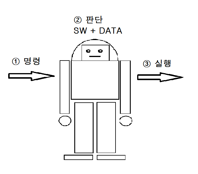 기존의 로봇 작동 원리